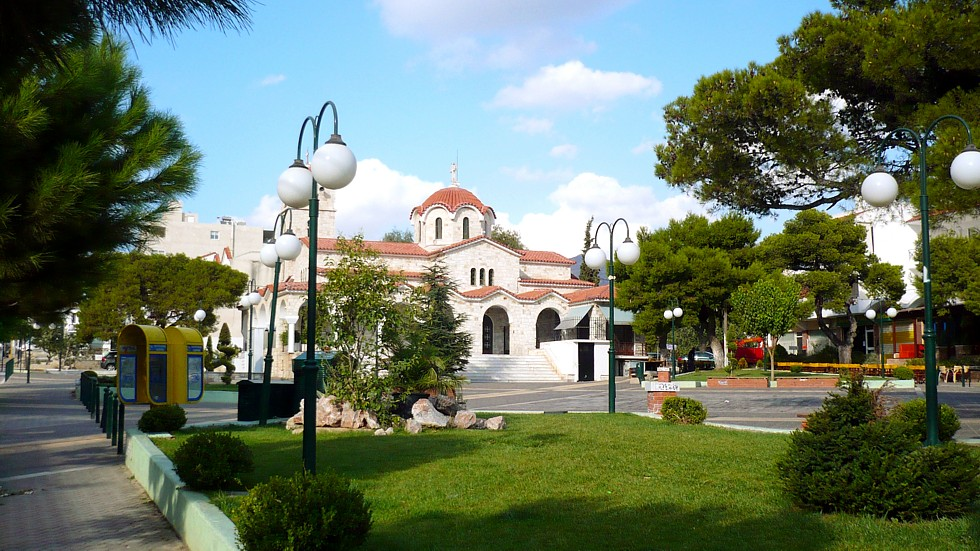 Mikrasiaton Square - Agios Georgios church (Melissia, Attica)